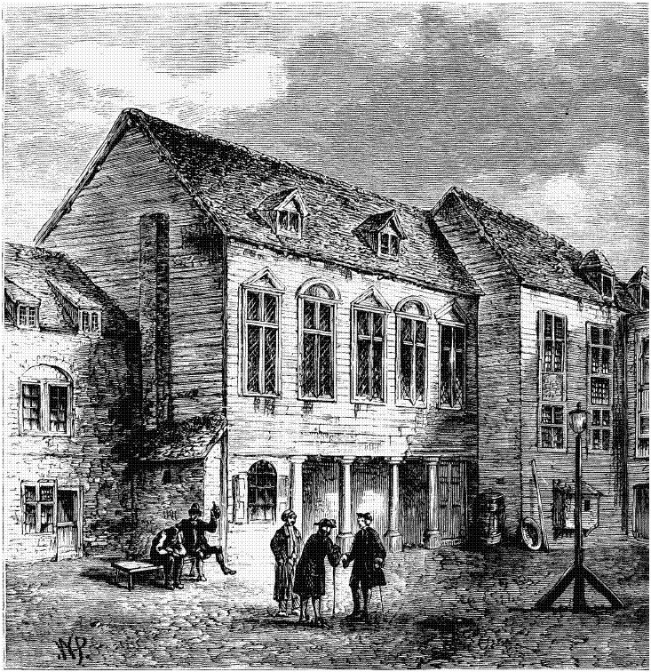 Marshalsea prison, Southwark, London, 18th century